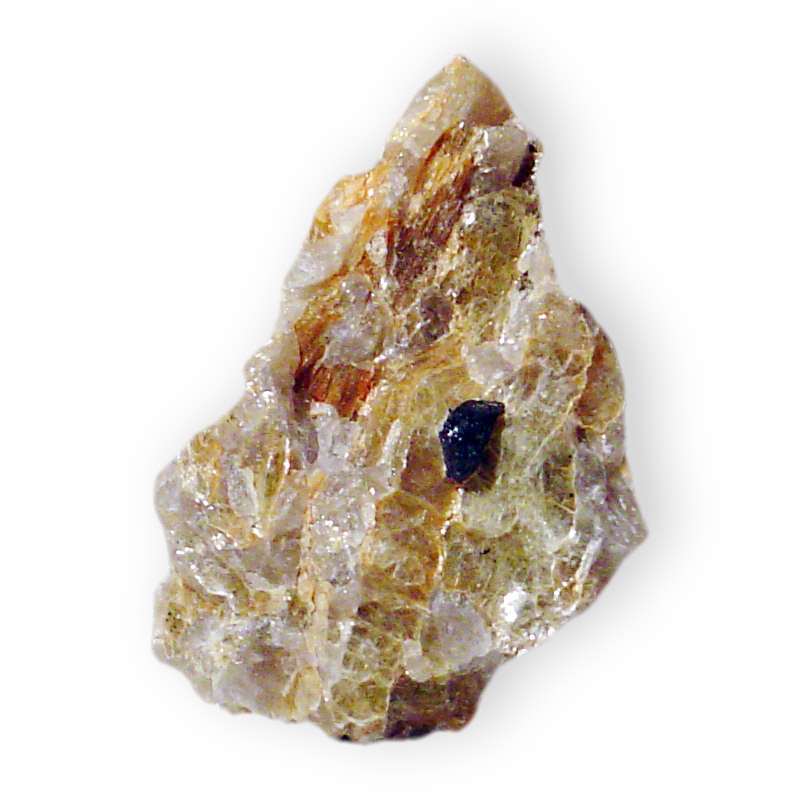 These mineral images are free to use how you wish.